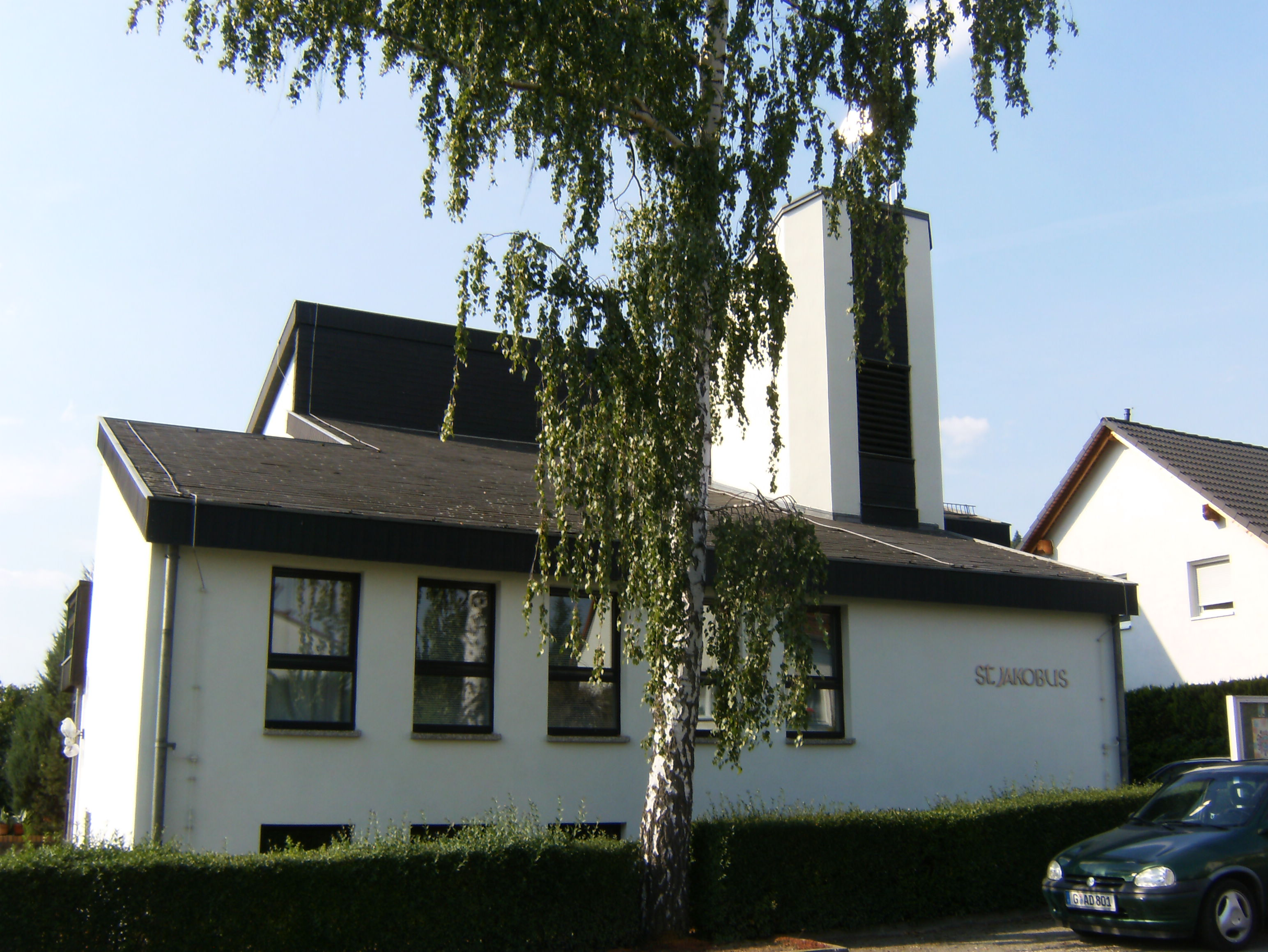 Gera Langenberg catholic church (Saint Jacobus church), consecrated in 1989.